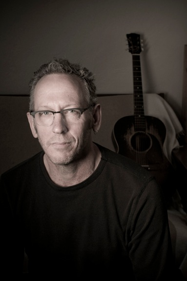 Darden Smith photographed by Matt Sturtevant